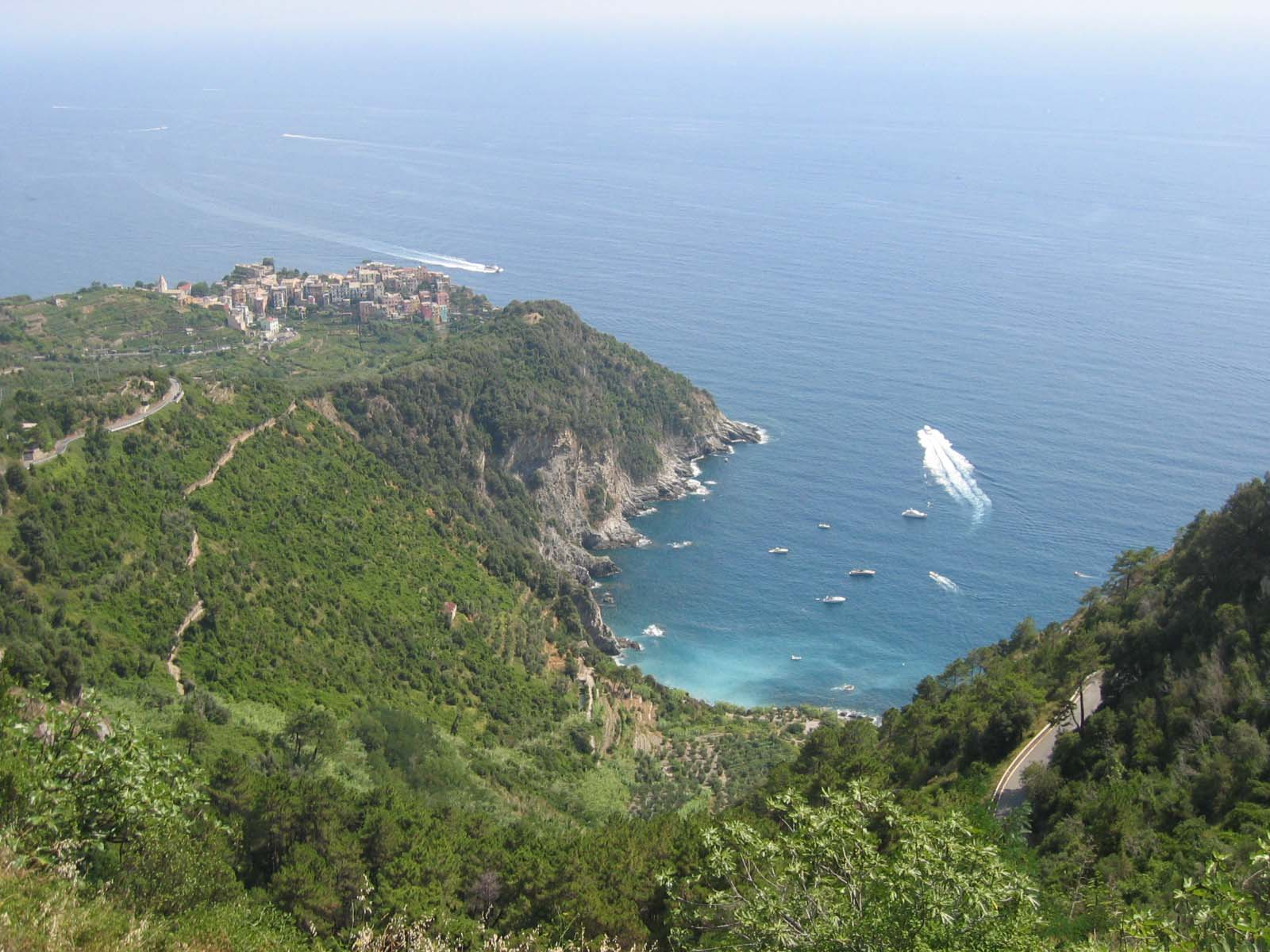 Panorama of village Corniglia and coast of Corniglia, with Guvano bay from above.